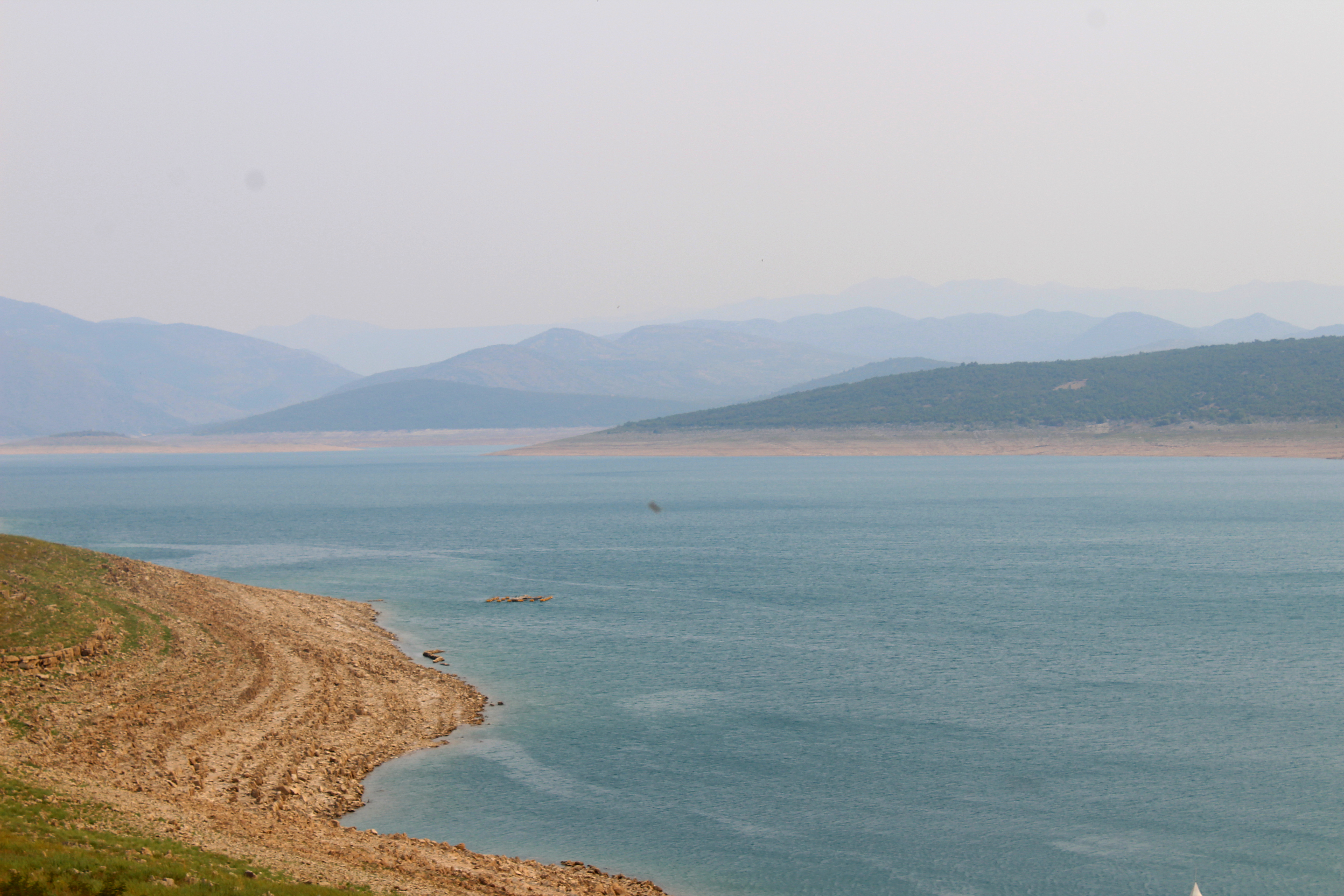 Парк природе Билећко језеро са околином, Билећа ID добра: PPP001